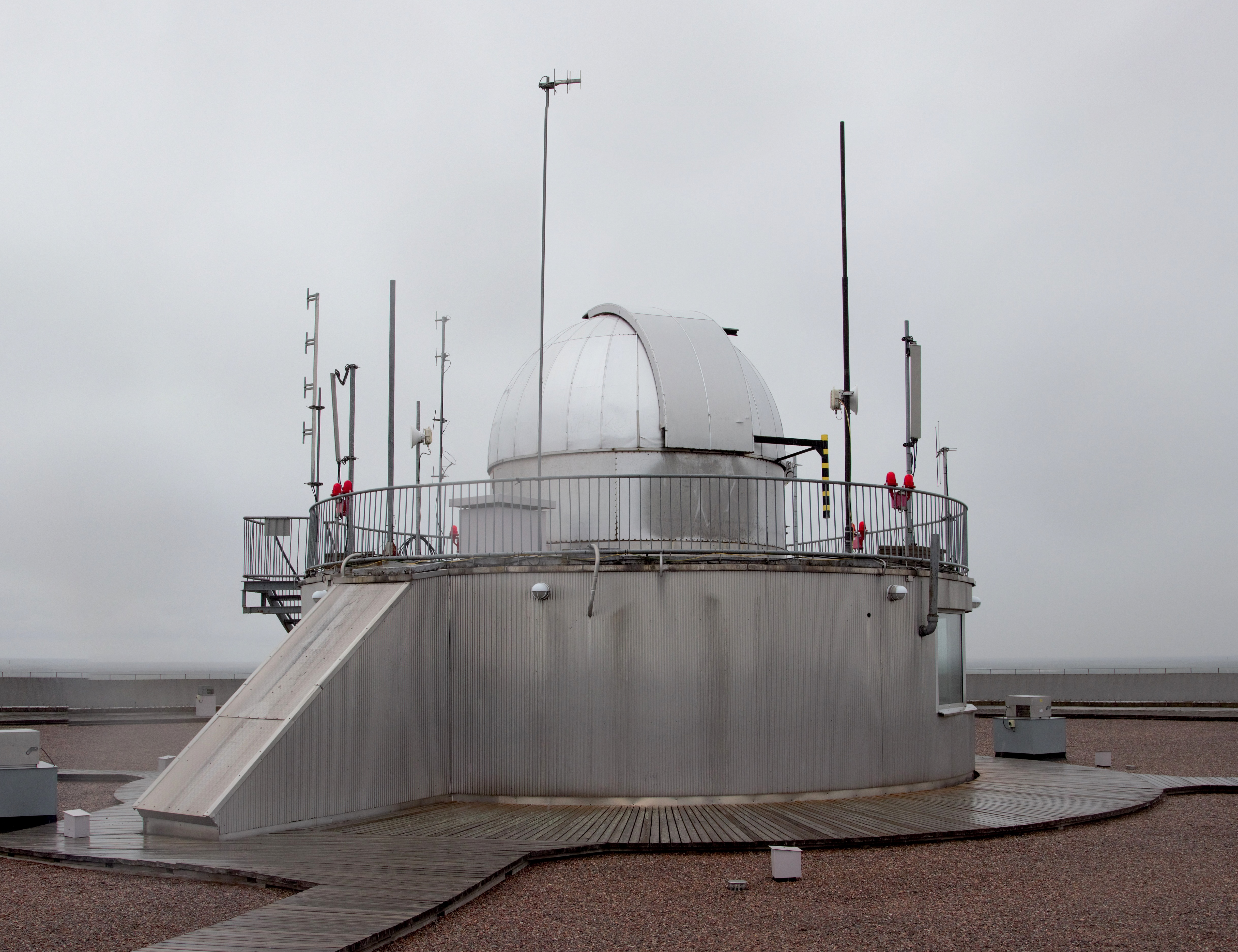 An observatory on top of the Puolivälinkangas water tower in Oulu